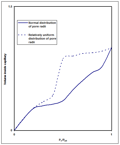 This image describes the adsorption profile for a porous structure if the pore radii were in a uniform distribution(same) or a normal distribution(evenly different sizes).